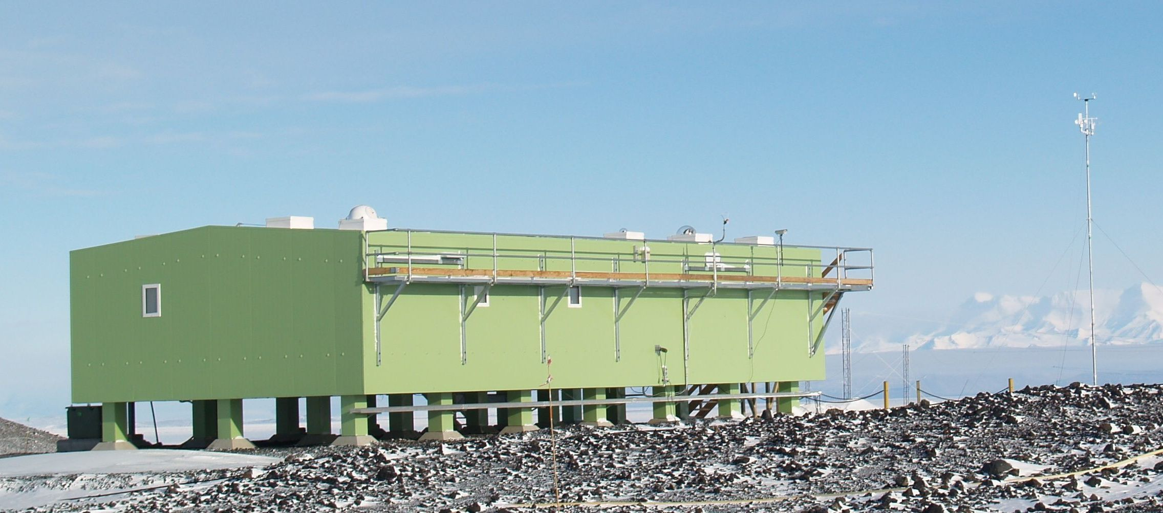 Antarctica New Zealand's Arrival Heights research laboratory, circa 2008.